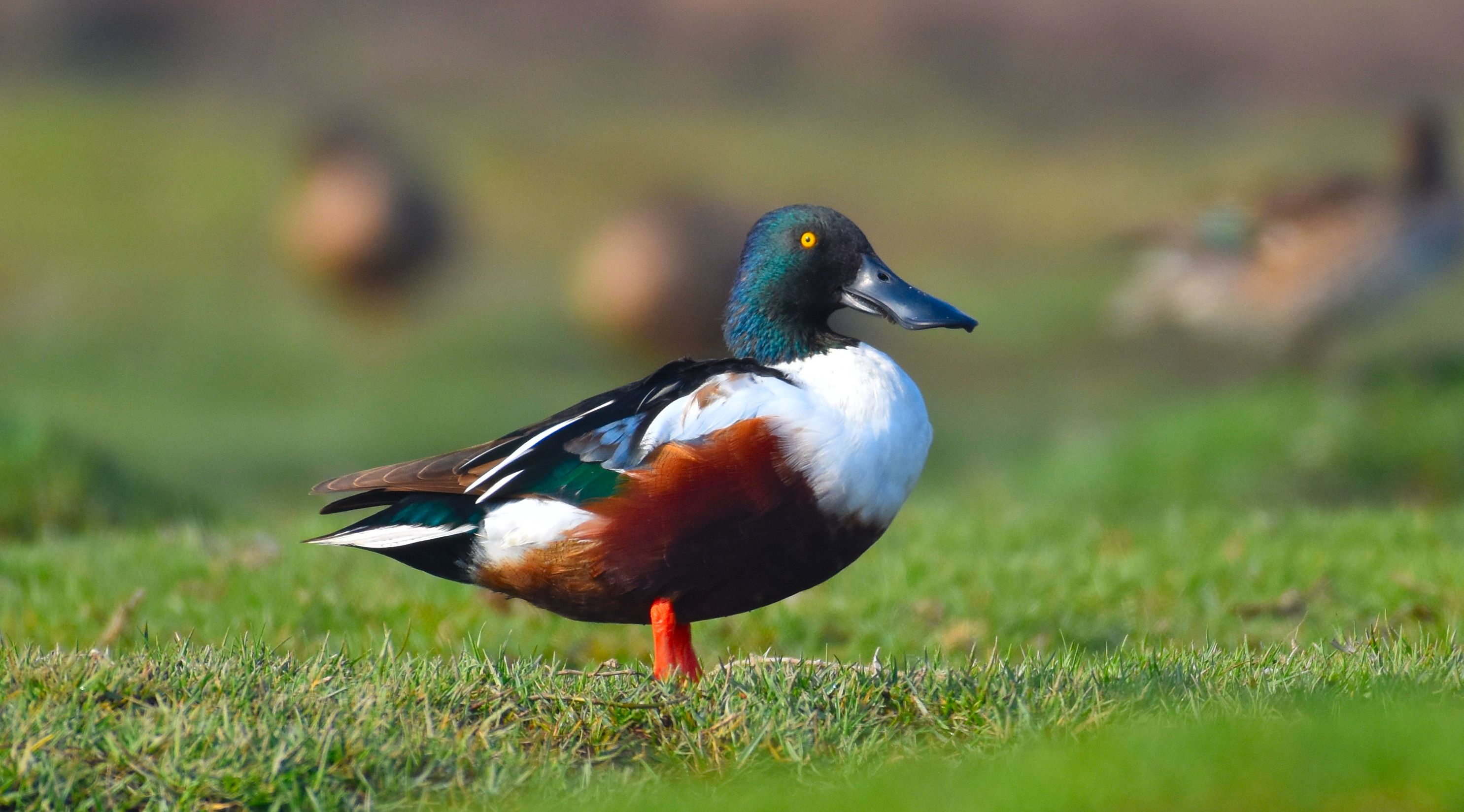 Northern Shoveler Male